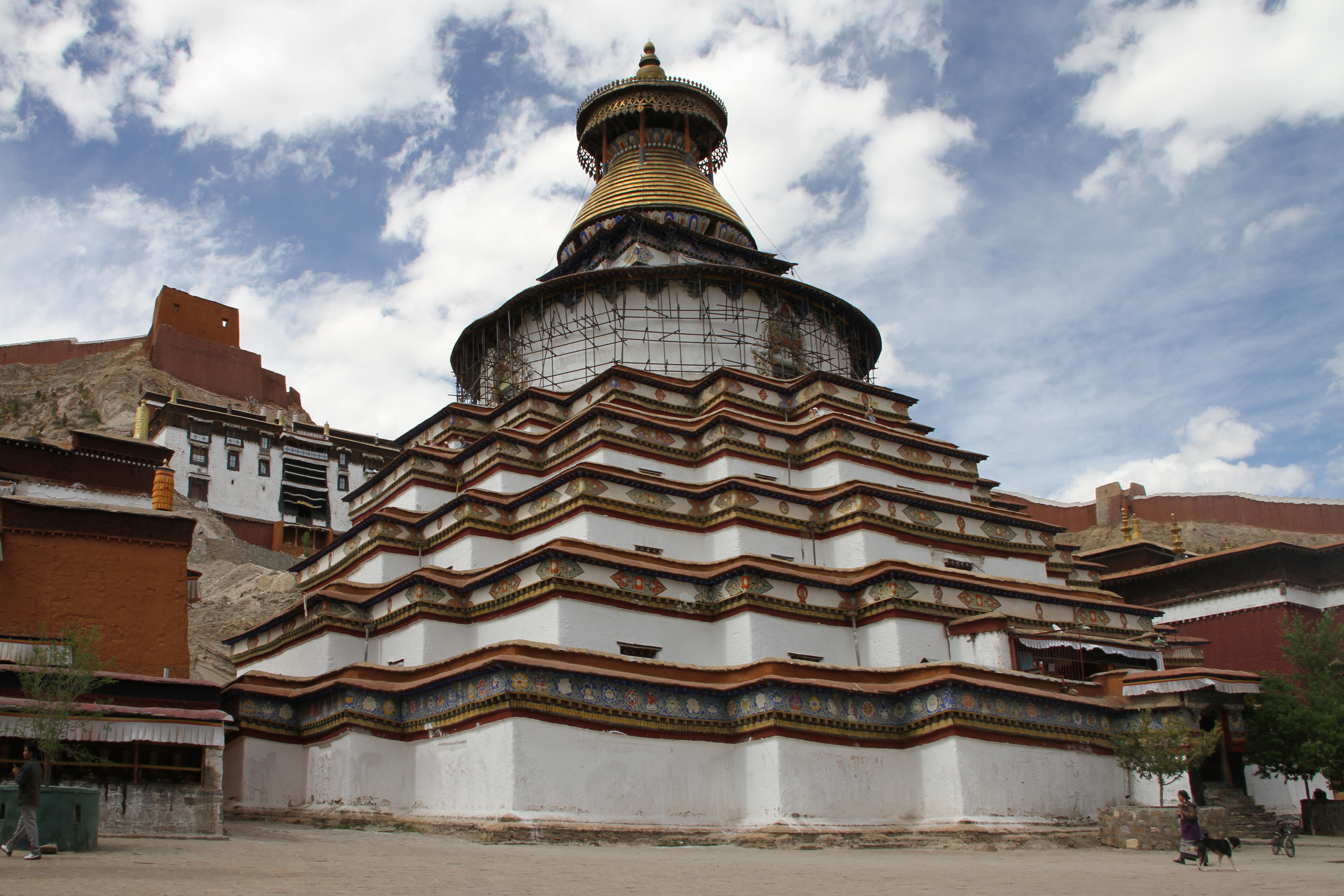 Kumbum in Palcho monastery in Gyantse in Tibet